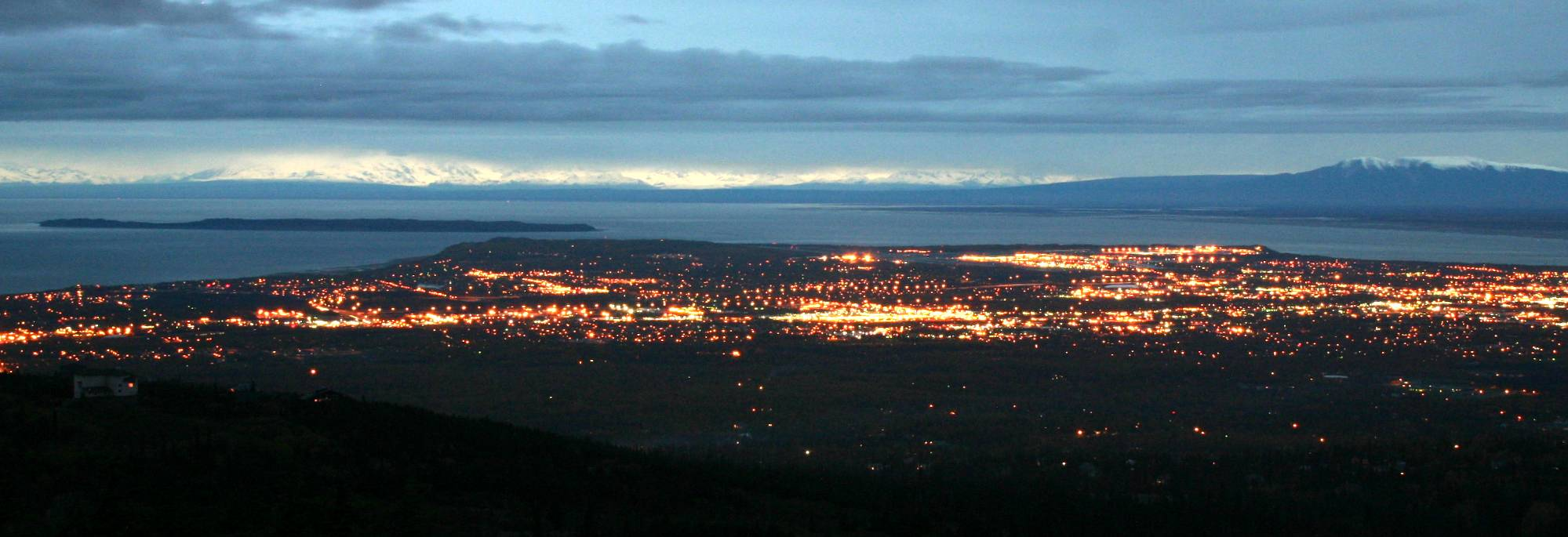 Taken around Anchorage, Alaska in September 2007.